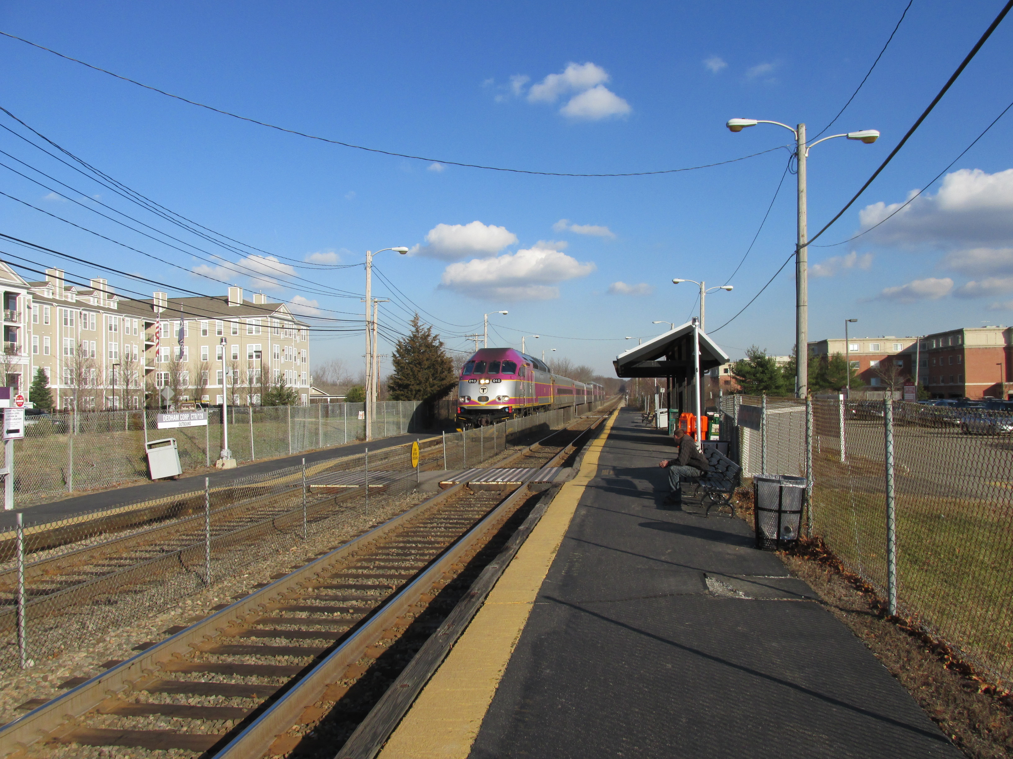 An outbound train at Dedham Corporate Center MBTA station in Dedham Massachusetts